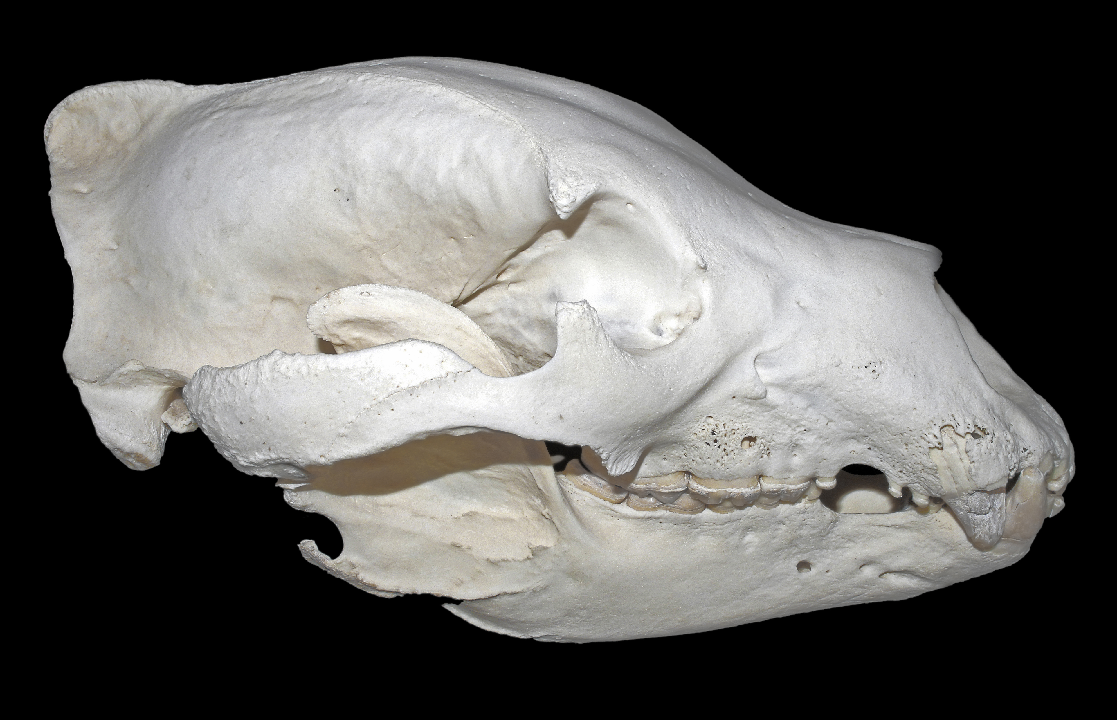 Skull of a Eurasian Brown Bear, Ursus arctos arctos, Family: Ursidae, Location: Southern Germany, Ulm, Tiergarten